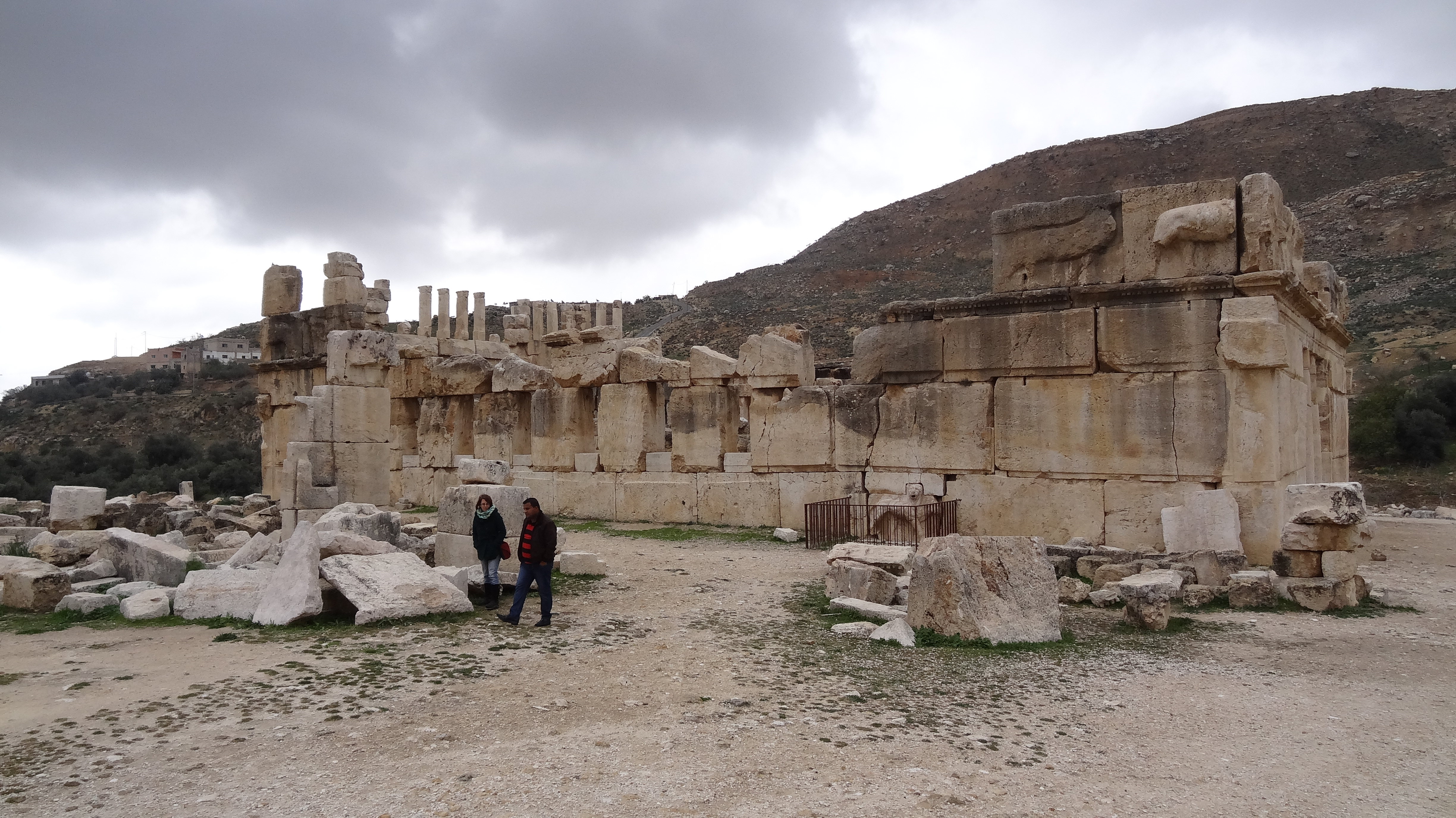 Qasr al-Abd near Iraq al-Amir, Jordan